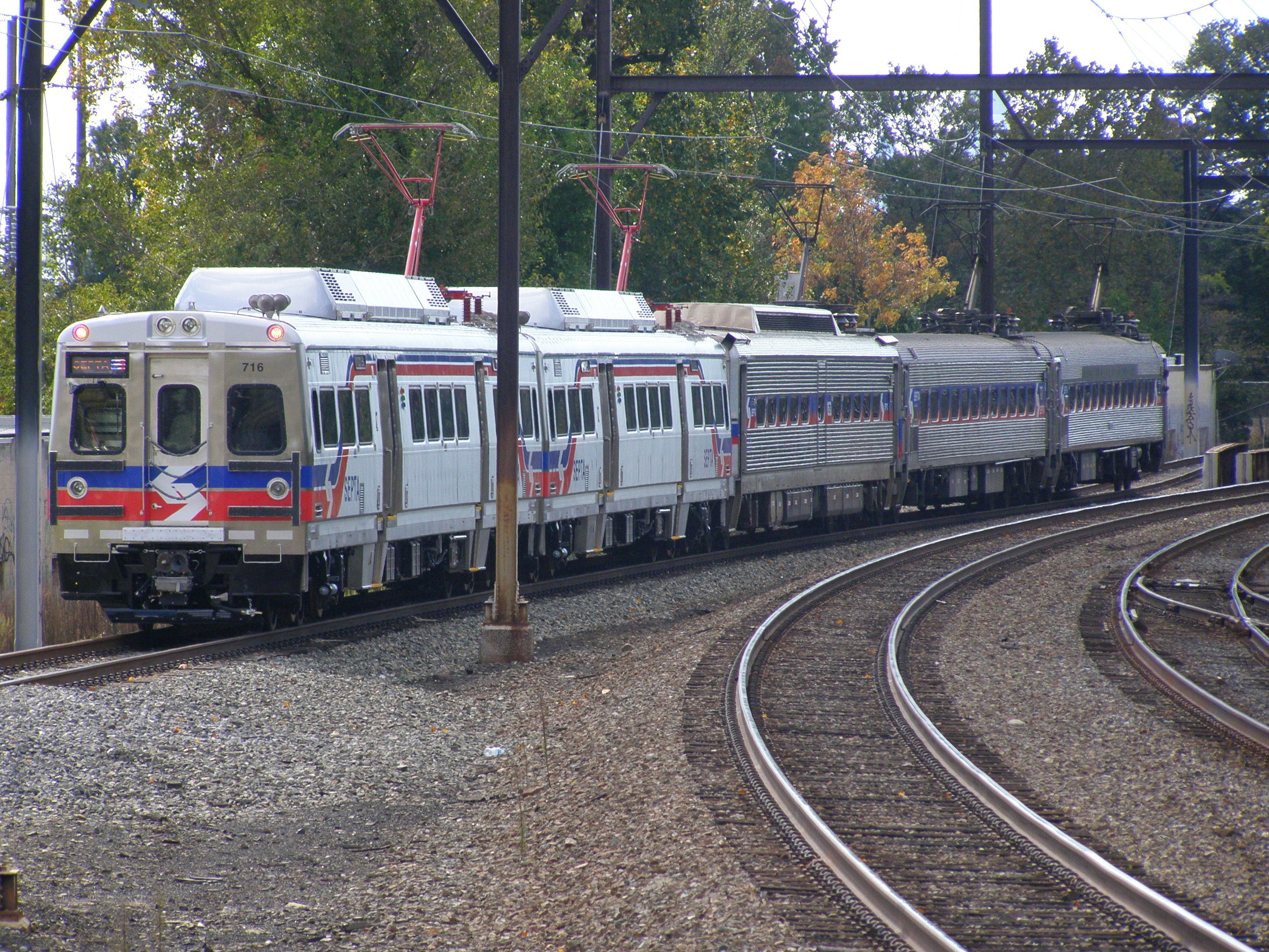 A non-revenue train of SEPTA Silverliners departs track 3 at the Fern Rock Transportation Center in route to the Wayne Electric Shoppes. The nearest two cars are Silverliner Vs; behind is a Silverliner IV, a Silverliner III, and a Silverliner II.